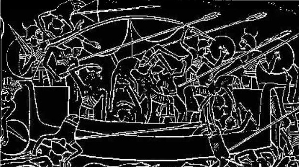 The battle between the Sea Peoples and the Egyptians (Medinet Habu)